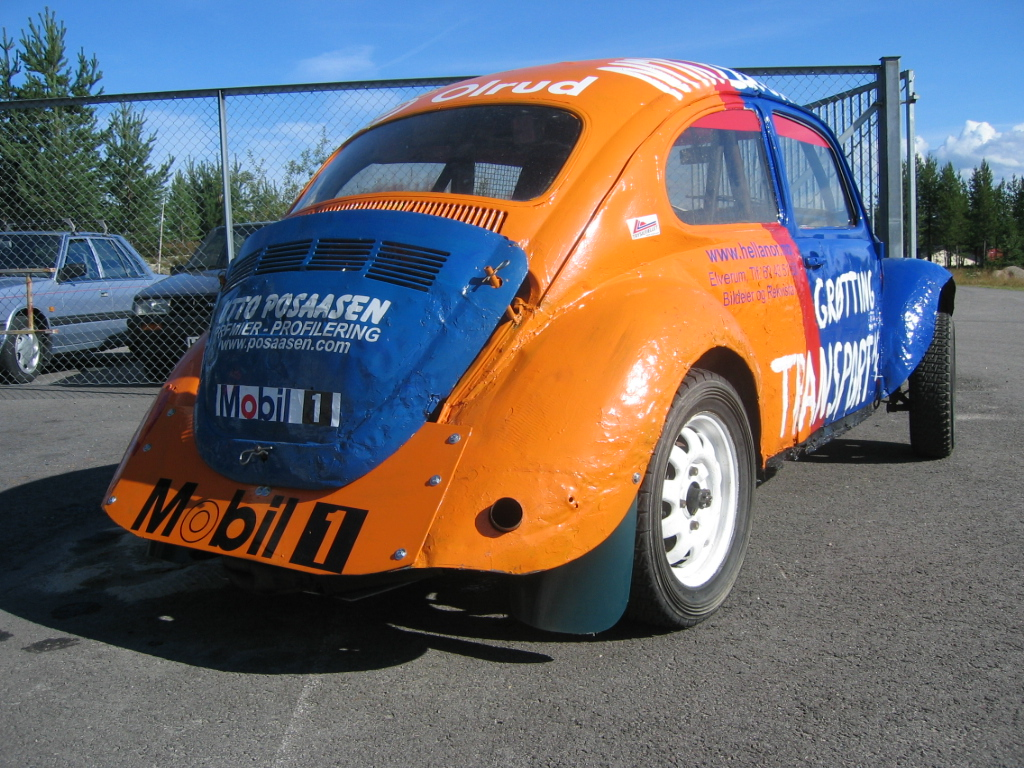 A typical folkrace car, year 2004. A Volkswagen Type 1